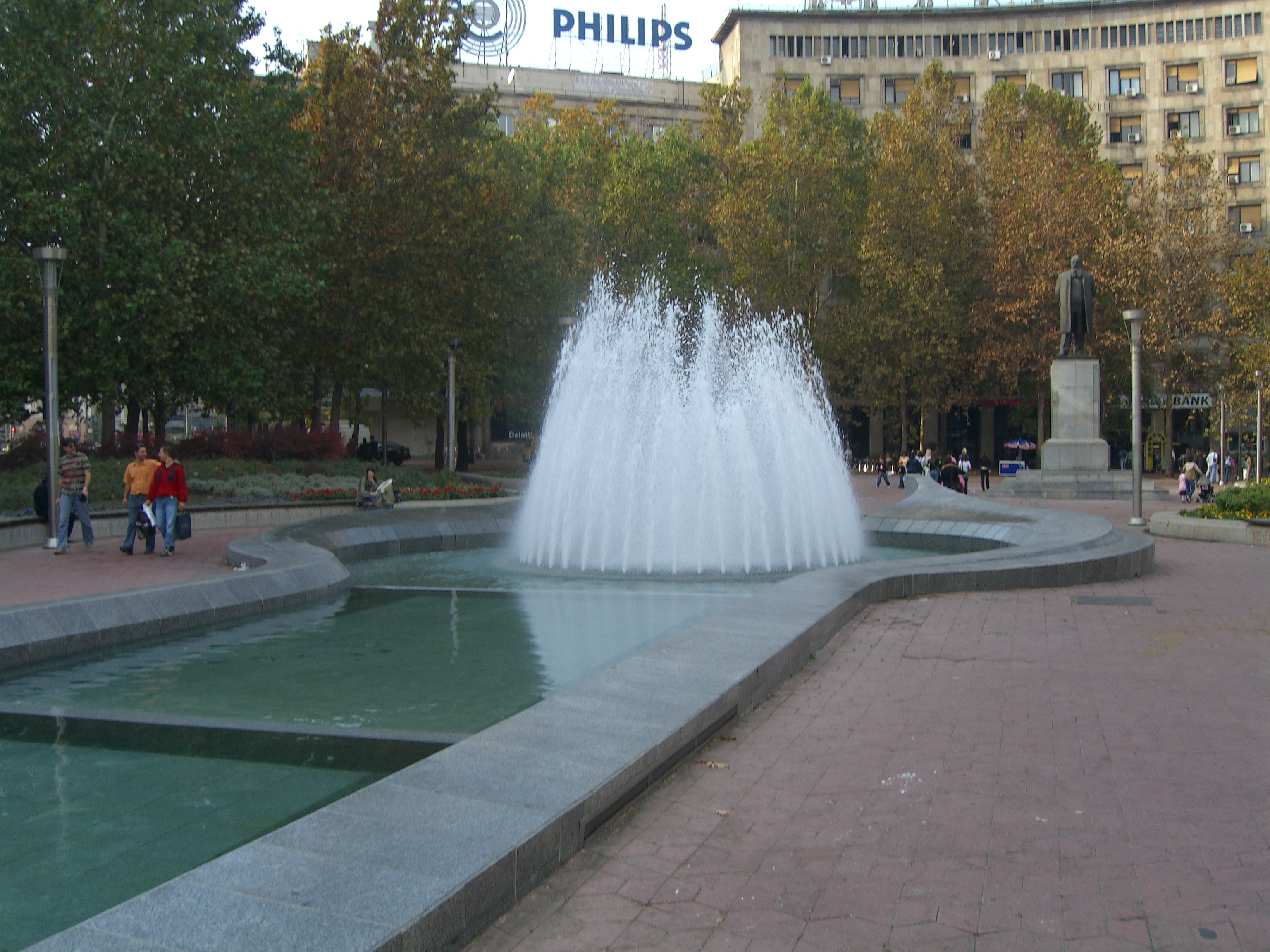 Nikola Pašić square in Belgrade. In the background the statue of Pašić could be seen